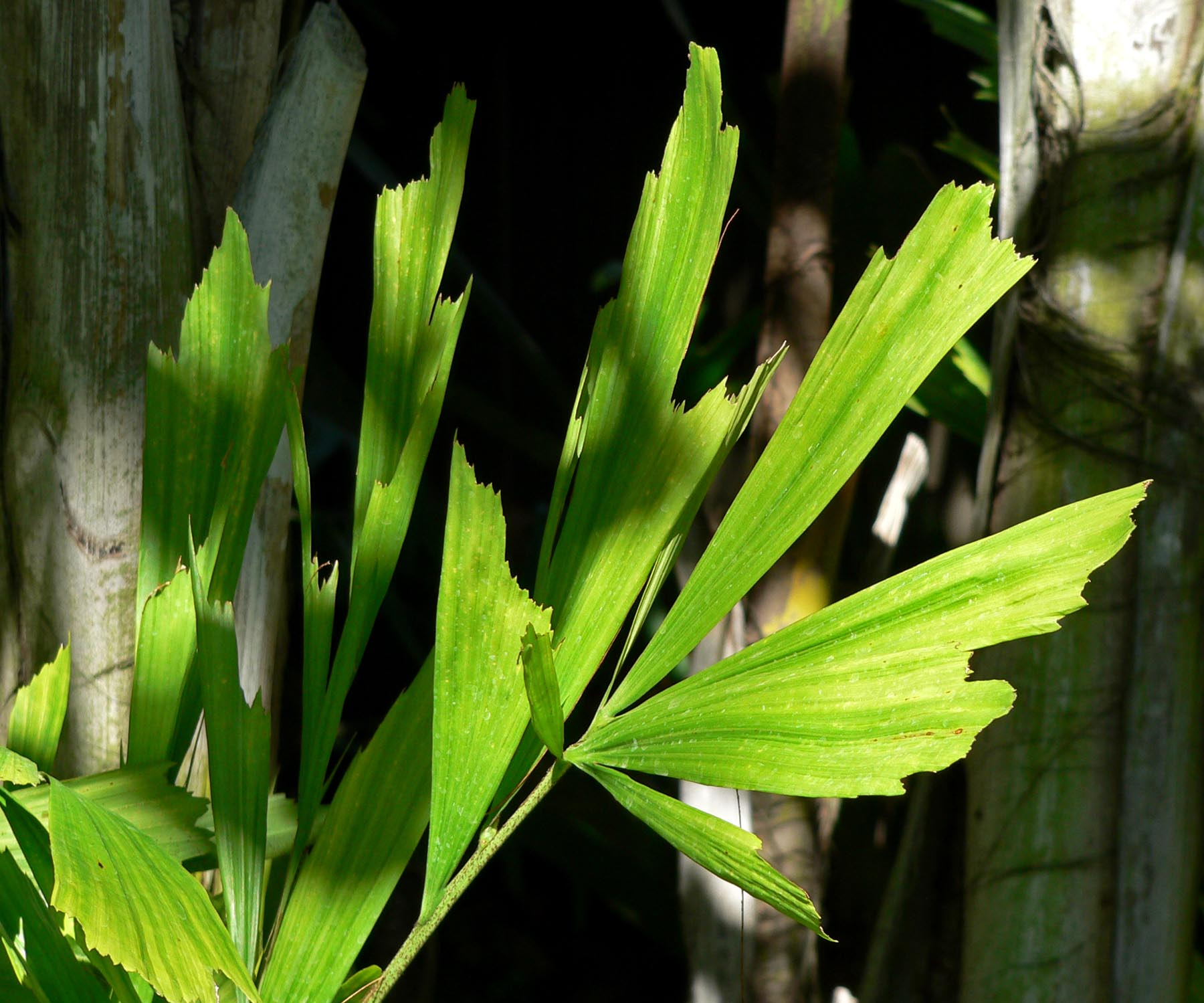 Photo of Caryota mitis at Balboa Park